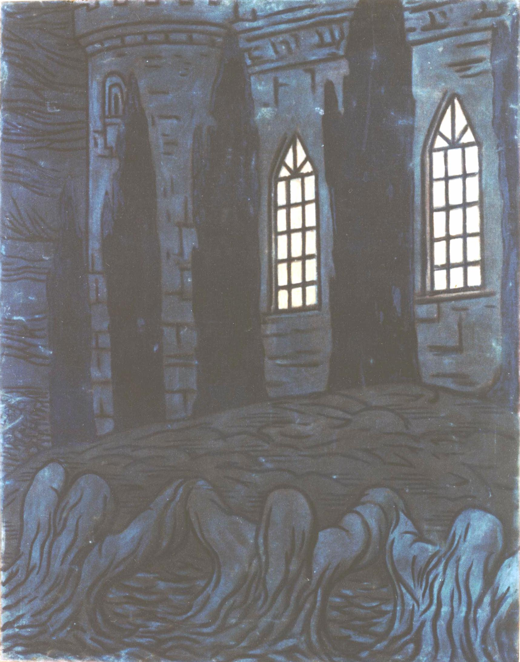 Pray of Waves.